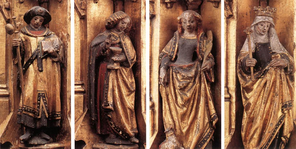 St Ursula Shrine Gilded and painted wood, 87 x 33 x 91 cm Memlingmuseum, Sint-Janshospitaal, Bruges